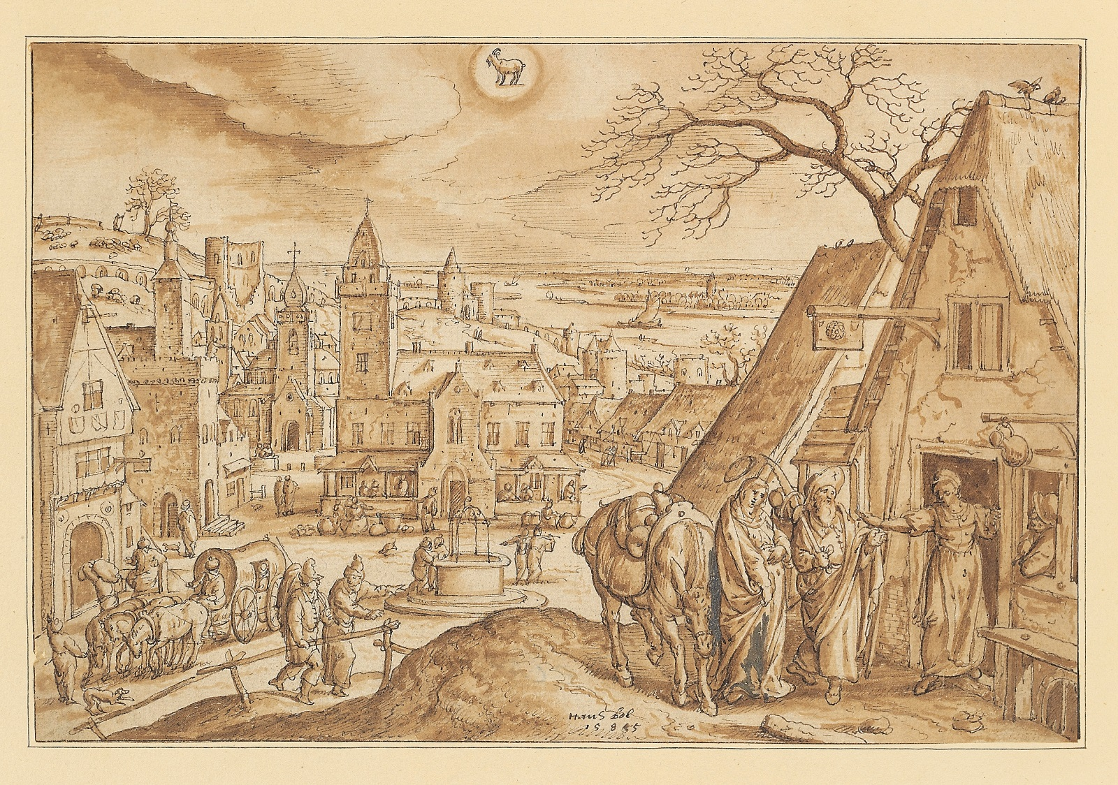 The month of December (Capricorn)